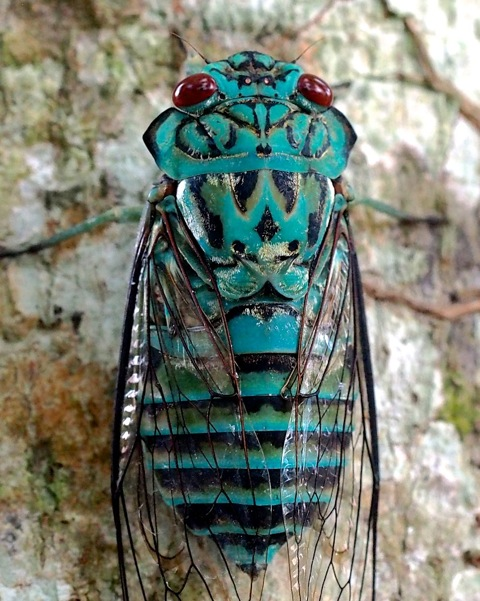 Zammara smaragdula Benque Viejo Del Carmen, Belize. August 2015